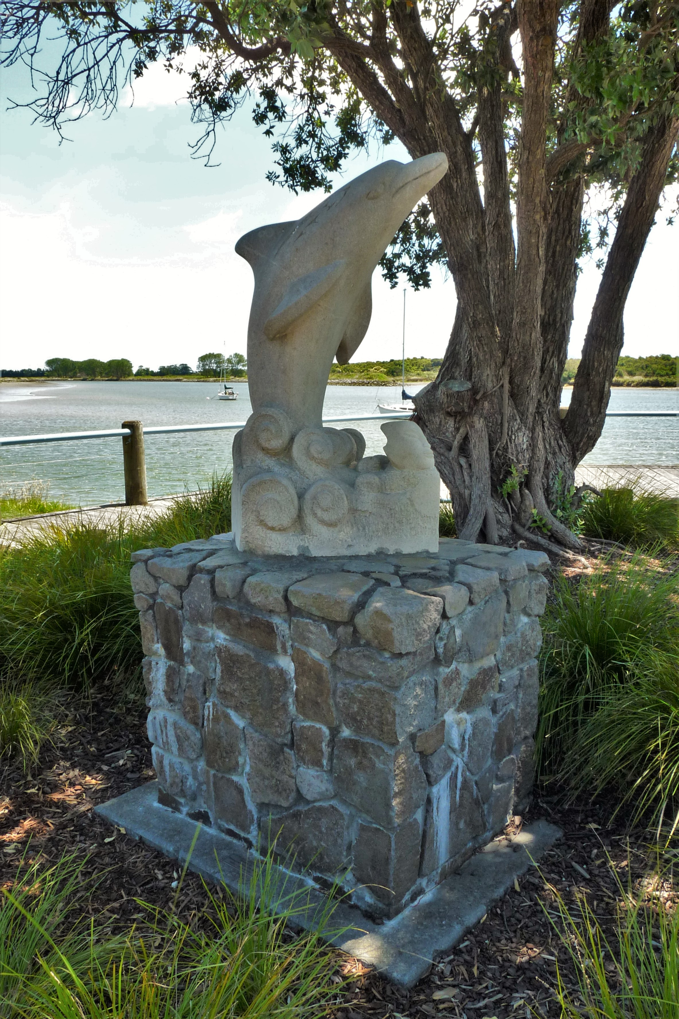 A photo of the sculpture "Moko Dolphin" (unknown date). It was sculpted by Jeffrey Bowlin and is on permanent display near the i-SITE in Whakatāne, New Zealand. It is to commerate Moko the dolphin, who visited the town for a few months in 2010.